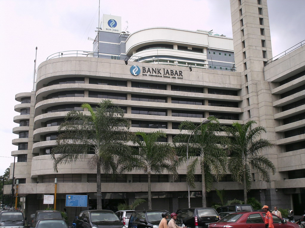 Bank Jabar at Braga Street, Bandung. The building was designed by a Dutch architect, Albert Aalbers in 1936.